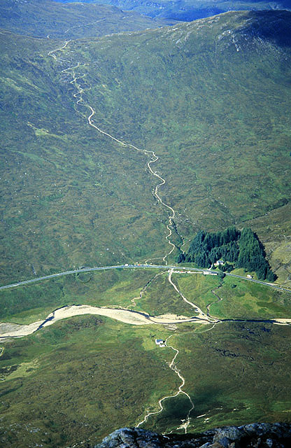 The Devil's Staircase This view from Stob Dearg in Glen Coe shows the A82 road and the River Coupall, with the path on the north side of the road on the old military road (on the upper part of the photo) rising from Altnafeadh, known as the Devil’s Staircase. This is on the Kingshouse to Kinlochleven section of the West Highland Way. The building on the south side of the road is the Scottish Mountaineering Club hut at Lagangarbh. A path passes by this building with the left branch (from the photographer’s viewpoint) leading to Coire na Tulaich and the Munro baggers route to the Buachaille Etive Mor ridge. The right branch of the path provides quick access to climbing and scrambling routes on the north face of Stob Dearg, such as North Buttress and Curved Ridge.